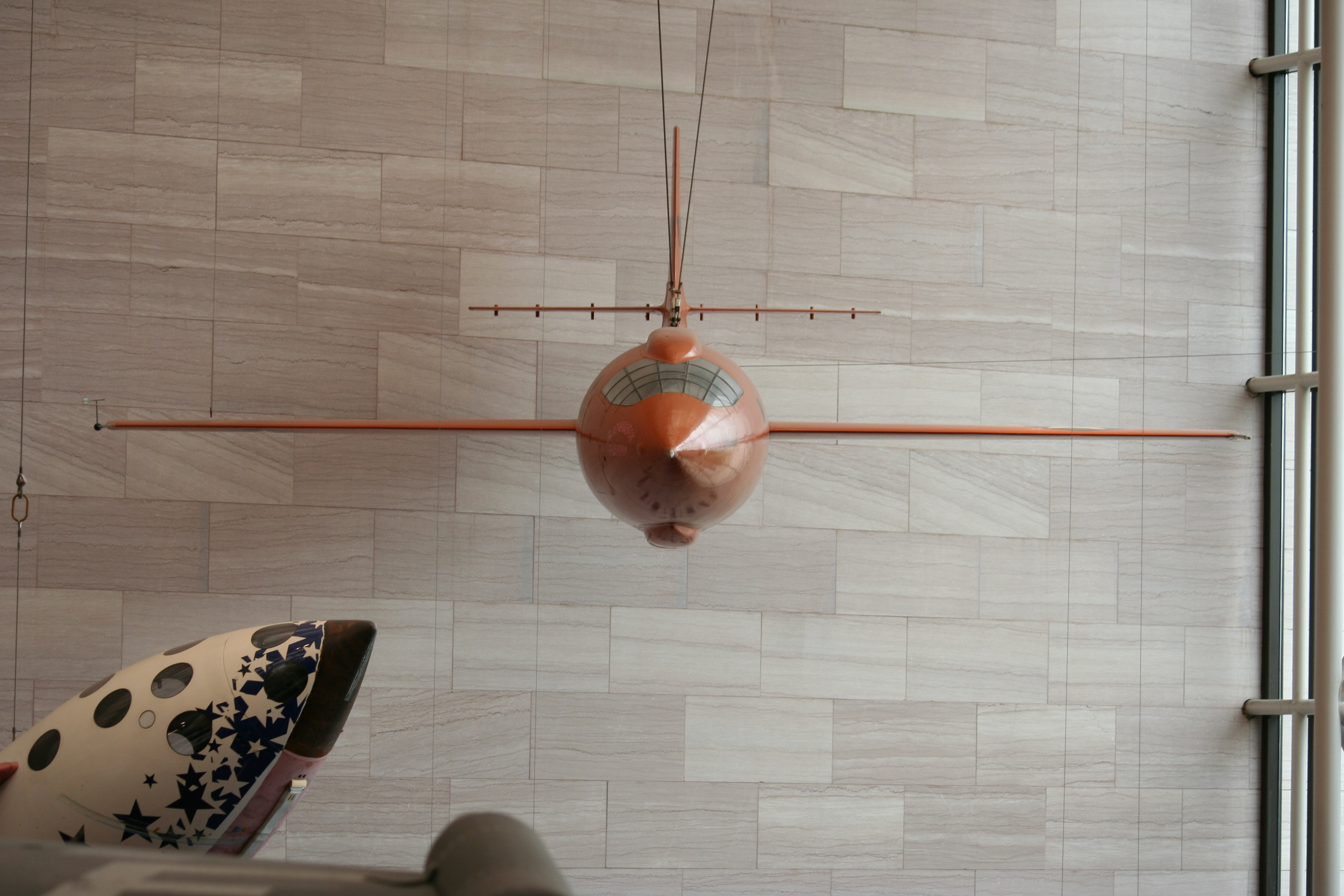 Bell X1 front view.